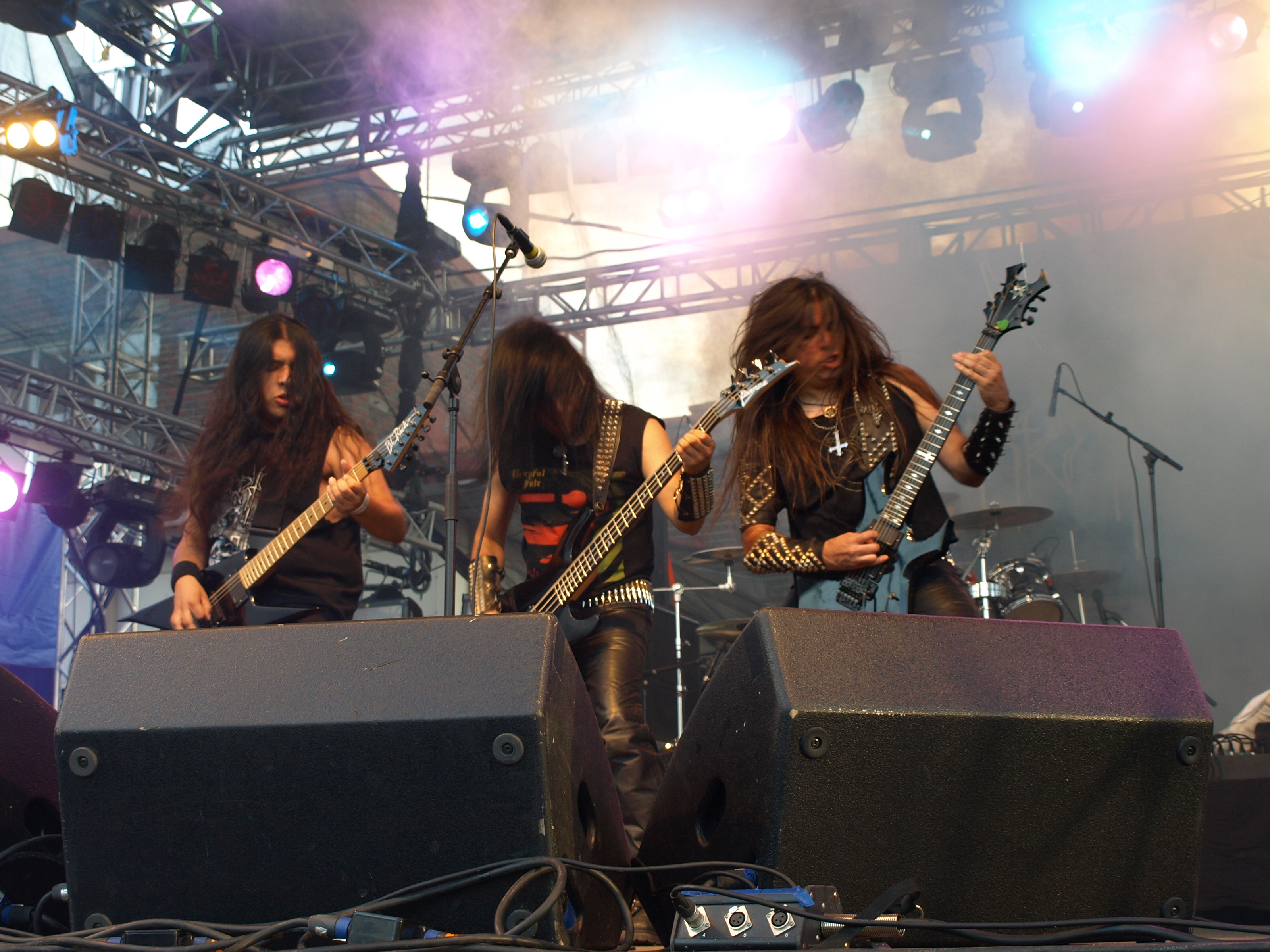 American death/thrash metal band Sadistic Intent live at Jalometalli 2008 in Oulu.